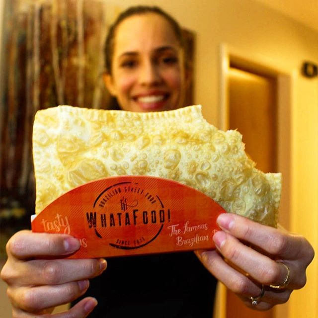 Whatafood Cheese pastel